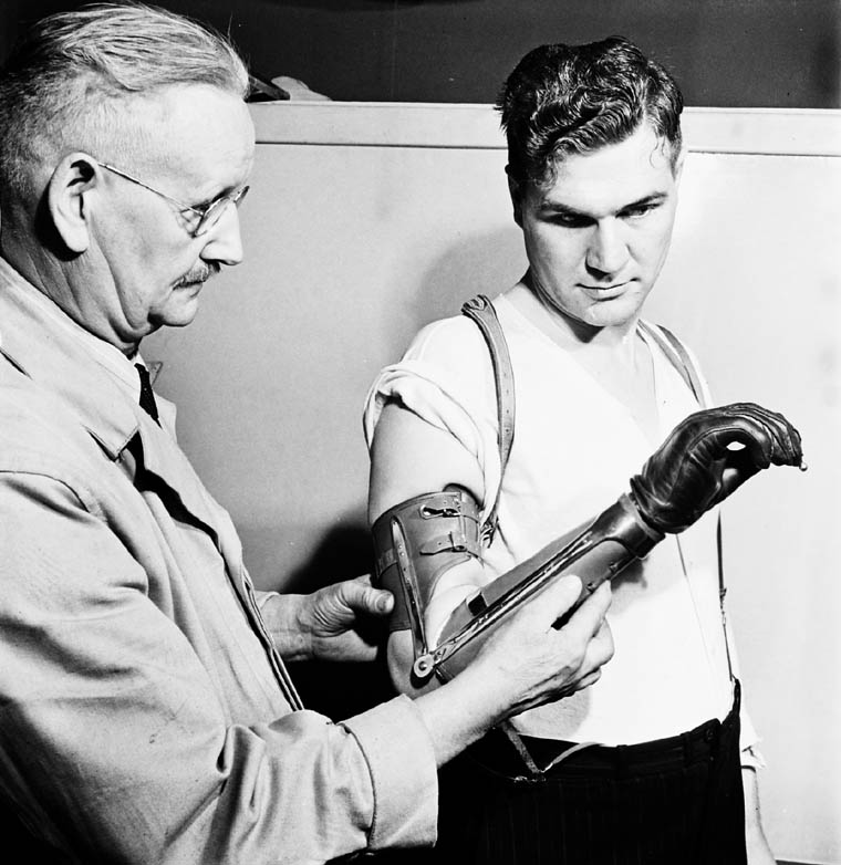 Private Ed Gerris of the Royal Canadian Army Service Corps, seen here with Principal Eccles of Shaw Business Schools, is using a specially-designed glove-covered artificial hand to learn penmanship during a retraining course on Primary Accountancy, 1944